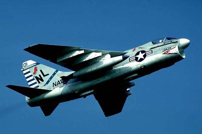 A U.S. Navy LTV A-7E Corsair II from Attack Squadron 22 (VA-22) "Fighting Redcocks" in flight. VA-22 was assigned to Carrier Air Wing 15 (CVW-15) (tail code "NL") from 1971 to 1981.